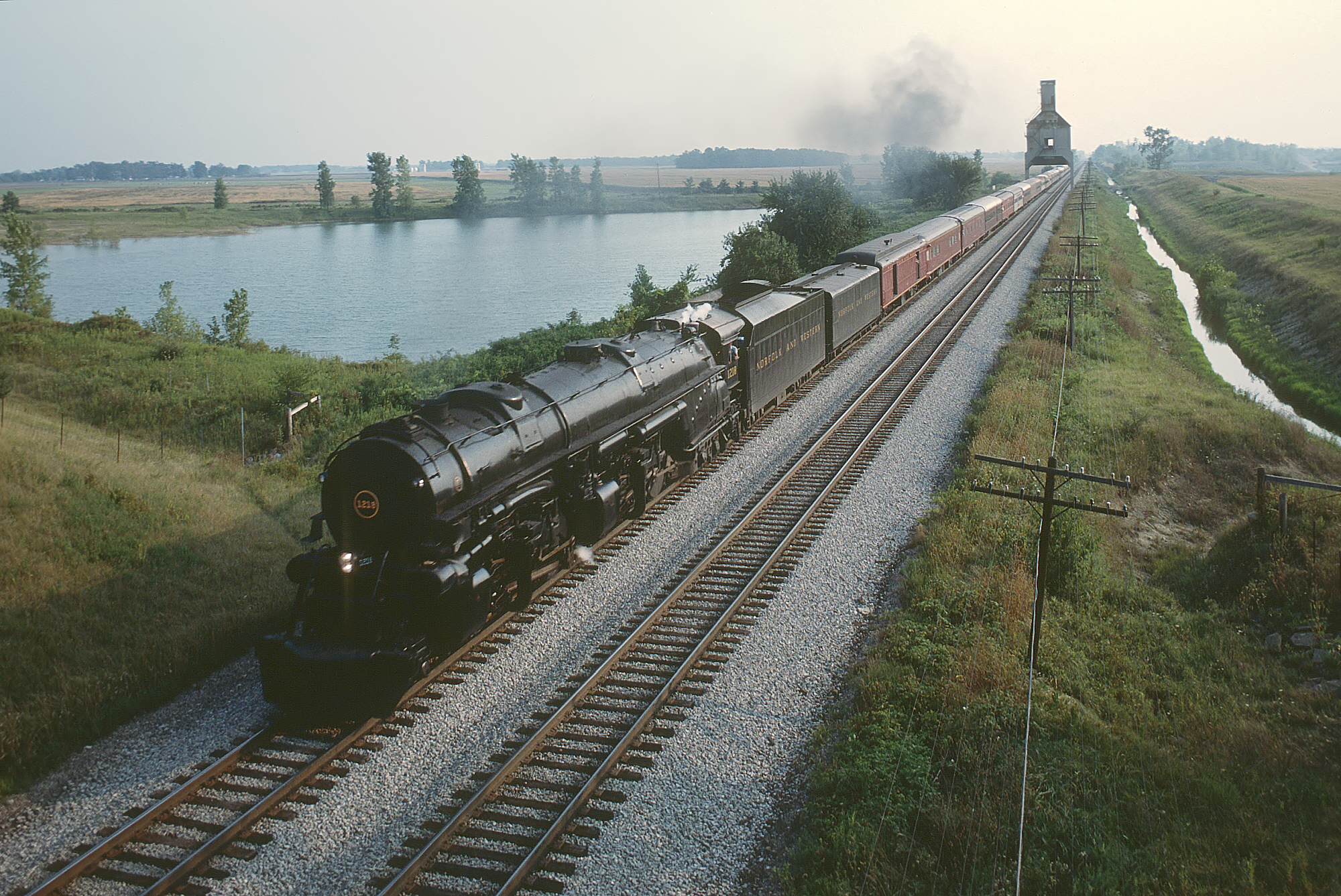 A Roger Puta photograph